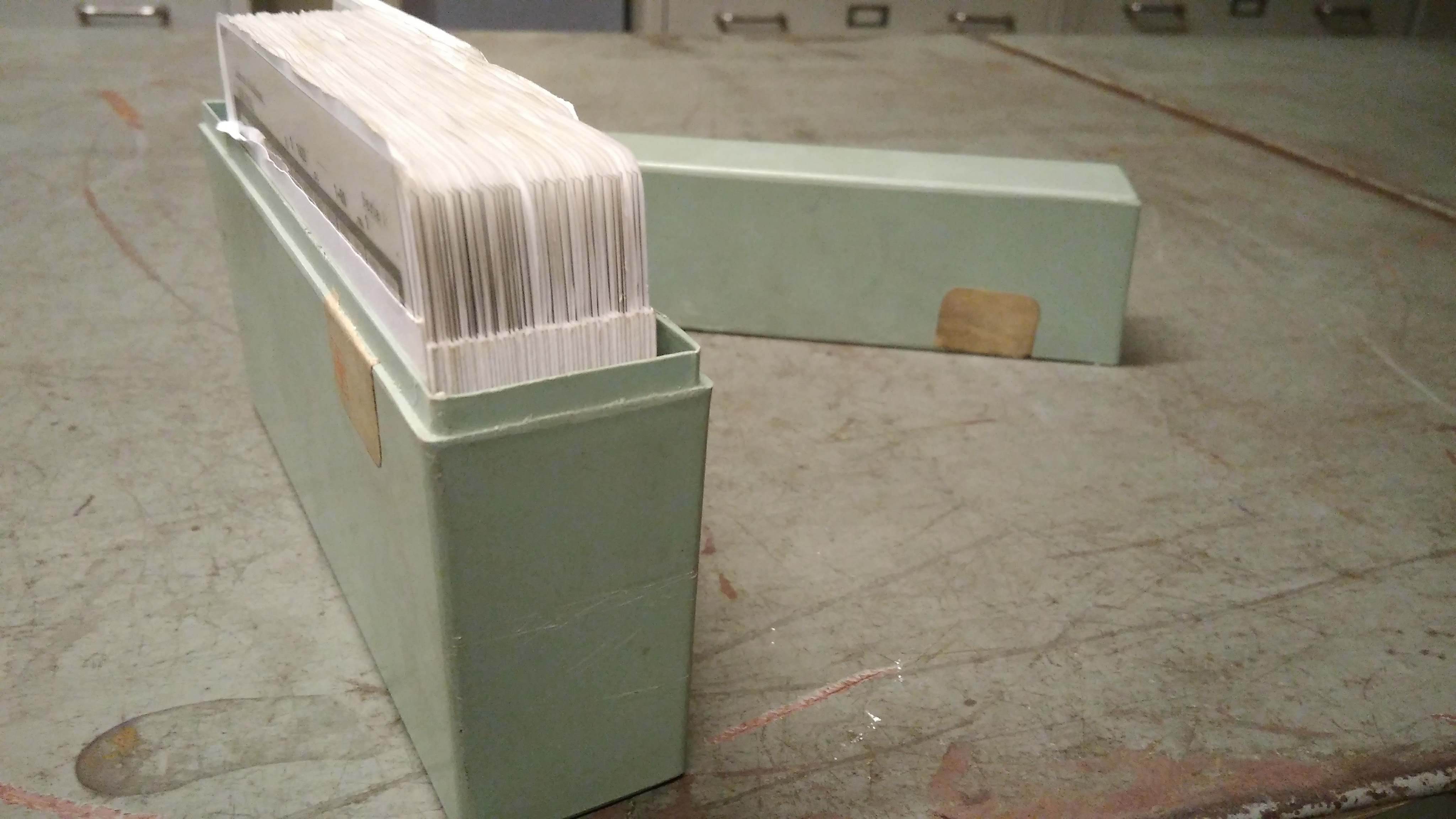 Its a Microfiche Holder with a bunch of microfiches inside.